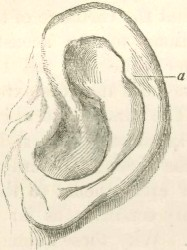 Image of human ear showing vestigial muscles. Original caption: Fig. 2. Human Ear, modelled and drawn by Mr. Woolner. a. The projecting point.